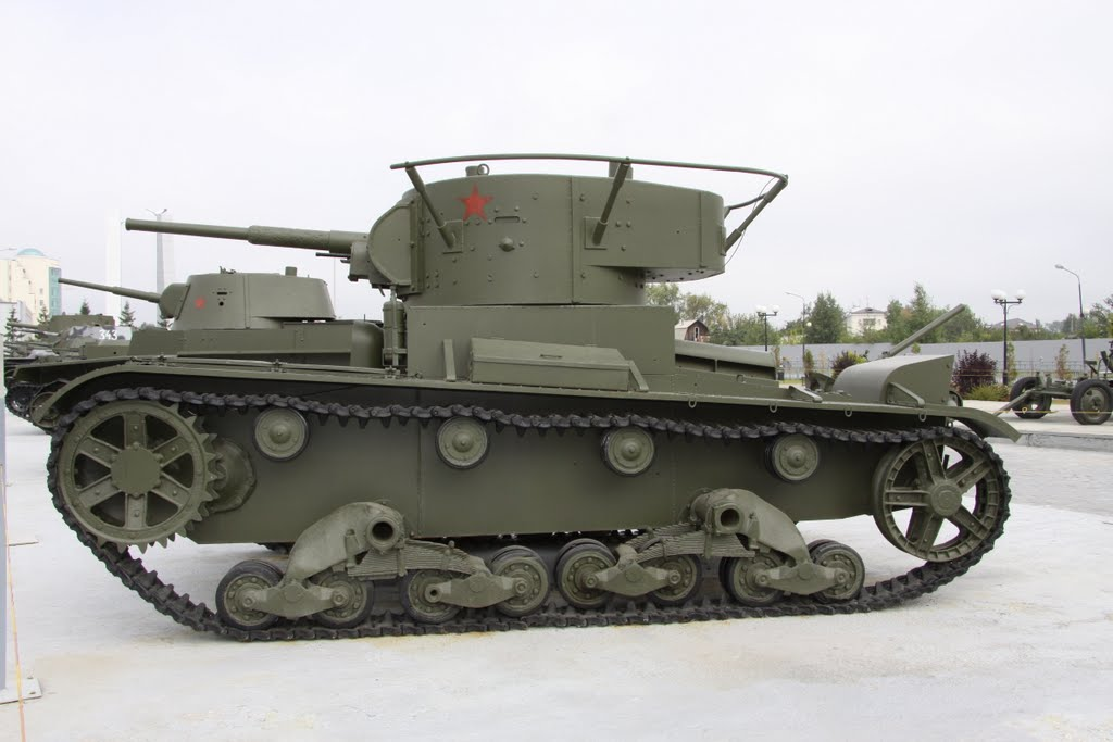 Verkhnyaya Pyshma Tank Museum 2011